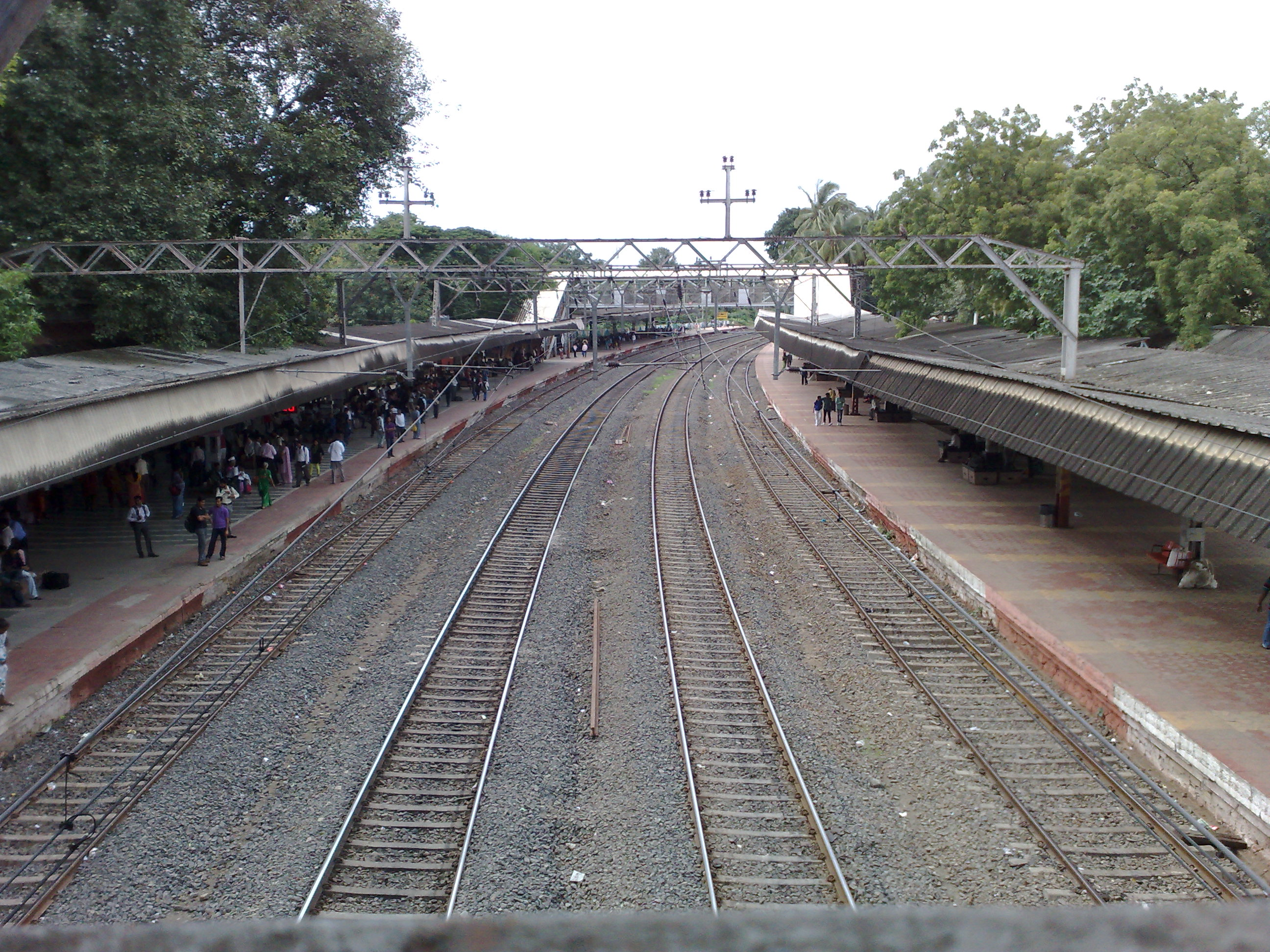 Shivaji Nagar overview